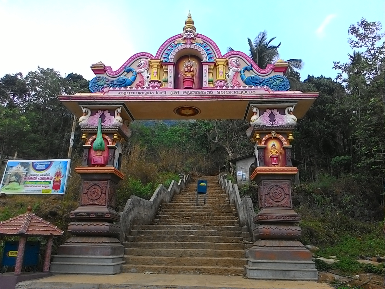 Kunnathoor Padi Muthappan Temple Gate